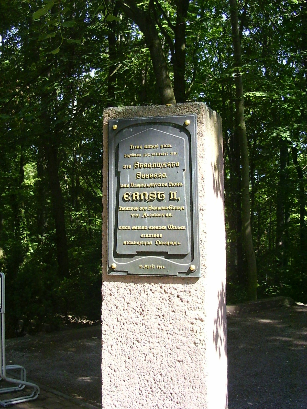 Memorial for Ernst II at the former Seeberg Observatory, Gotha